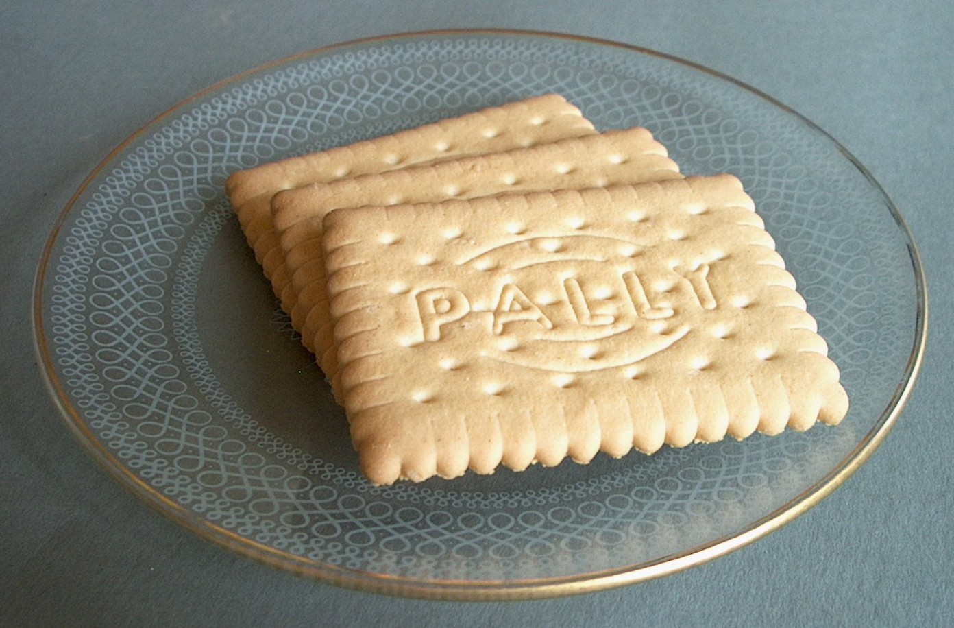 Pally biscuit(s) (IM012797.JPG)